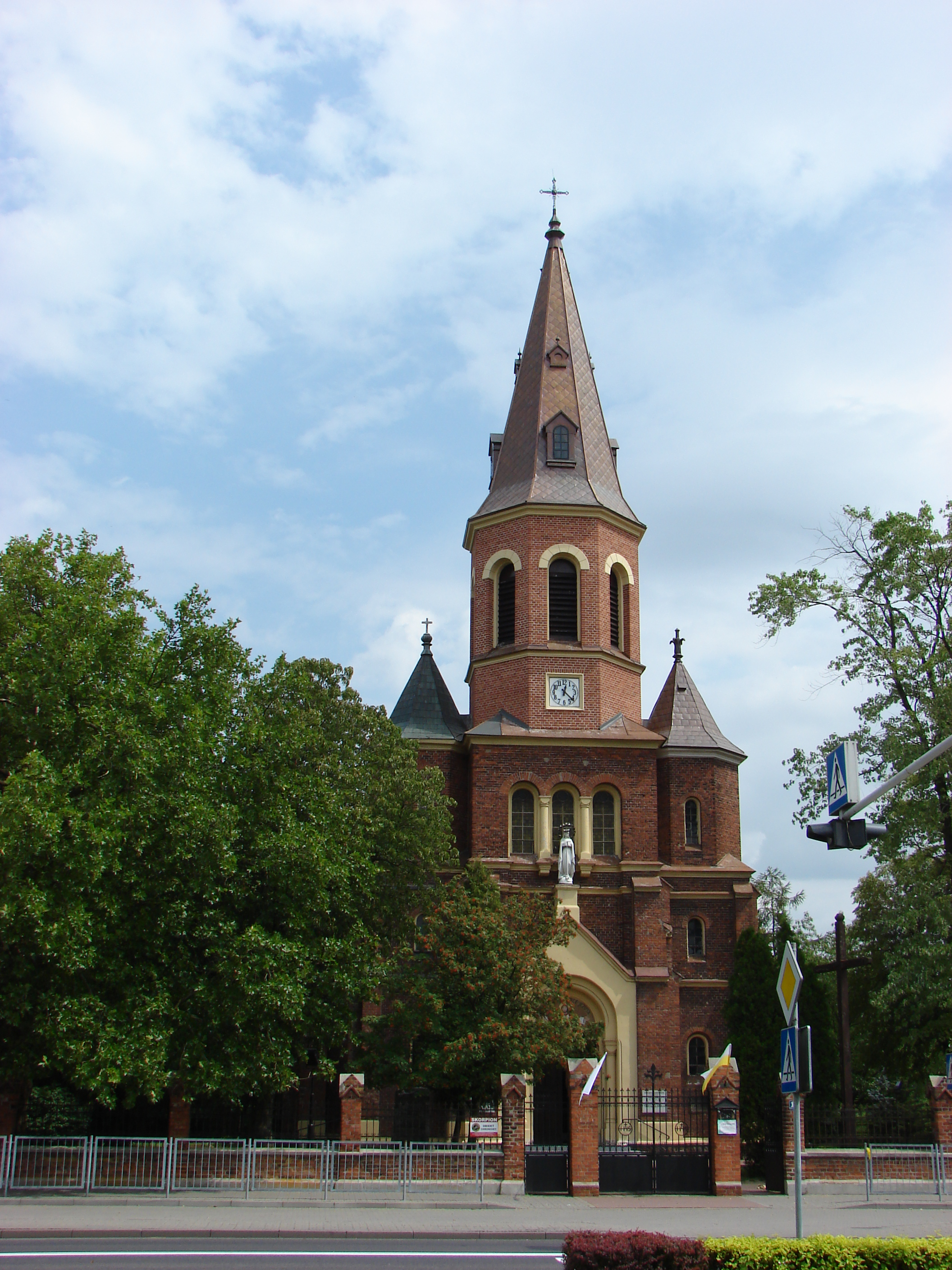 Lubień Kujawski, Włocławek county, Poland. Paish church from the years 1884-1886.